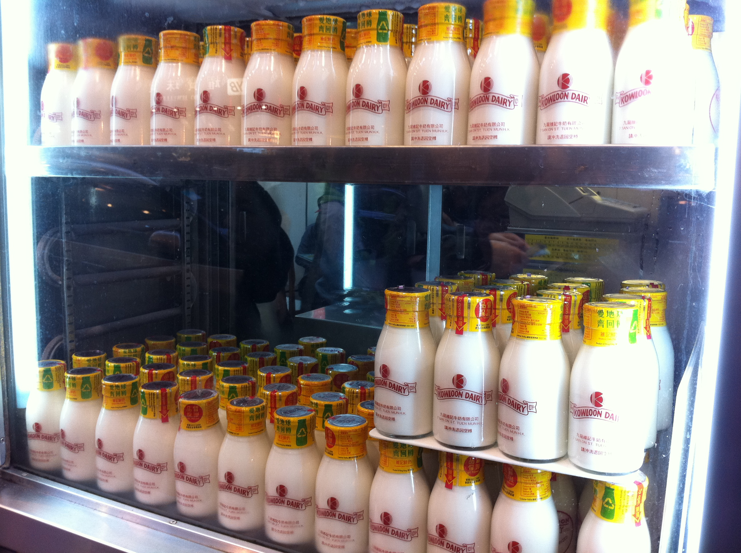 Australia Daily Company, Parkes Street, Yau Ma Tei, Hong Kong中文（香港）: 油麻地、白加士街、澳洲牛奶公司、九龍維記牛奶